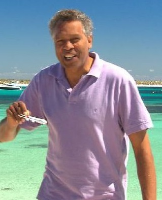 This is a photograph of Ernie Dingo.